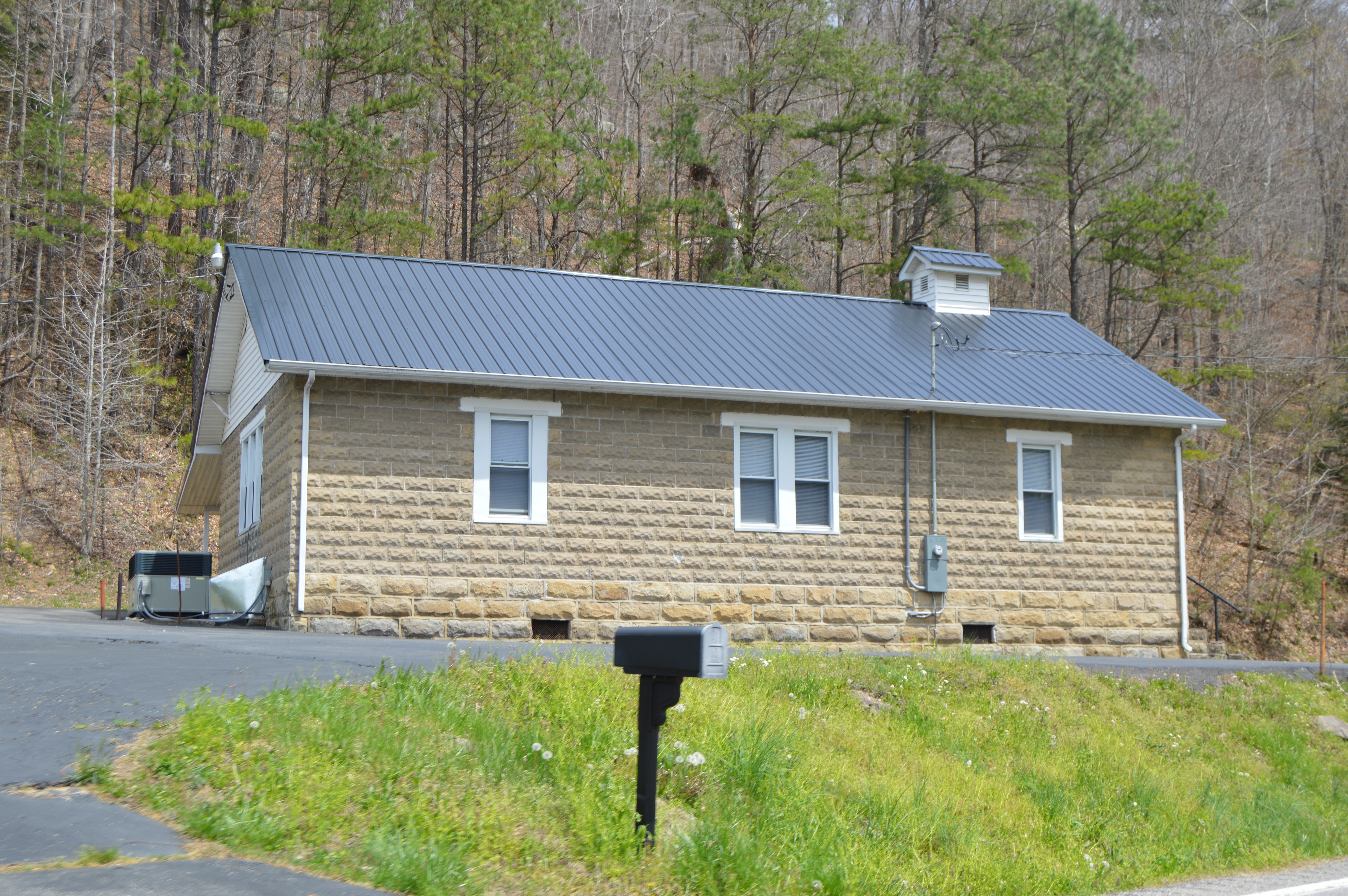 Southern side of the Sulphur Springs United Baptist Church, located along Kentucky Route 40 just west of the post office at Tomahawk in Martin County, Kentucky, United States.